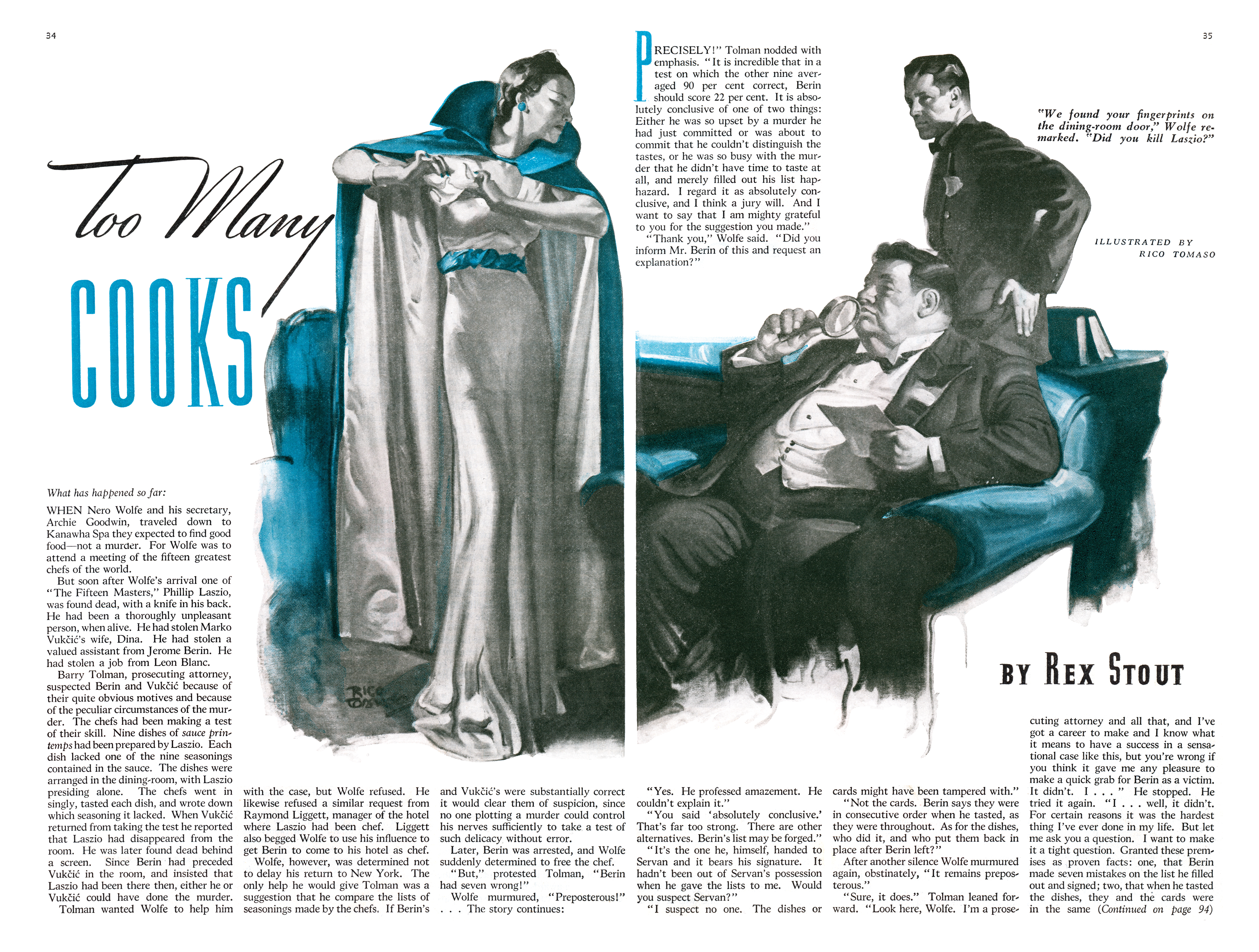 Title illustration for part three of the The American Magazine printing of Too Many Cooks (1938), a Nero Wolfe novel by Rex Stout, serialized in six installments (March–August 1938)